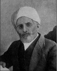 Hassan MusaKhan (1863-1945)